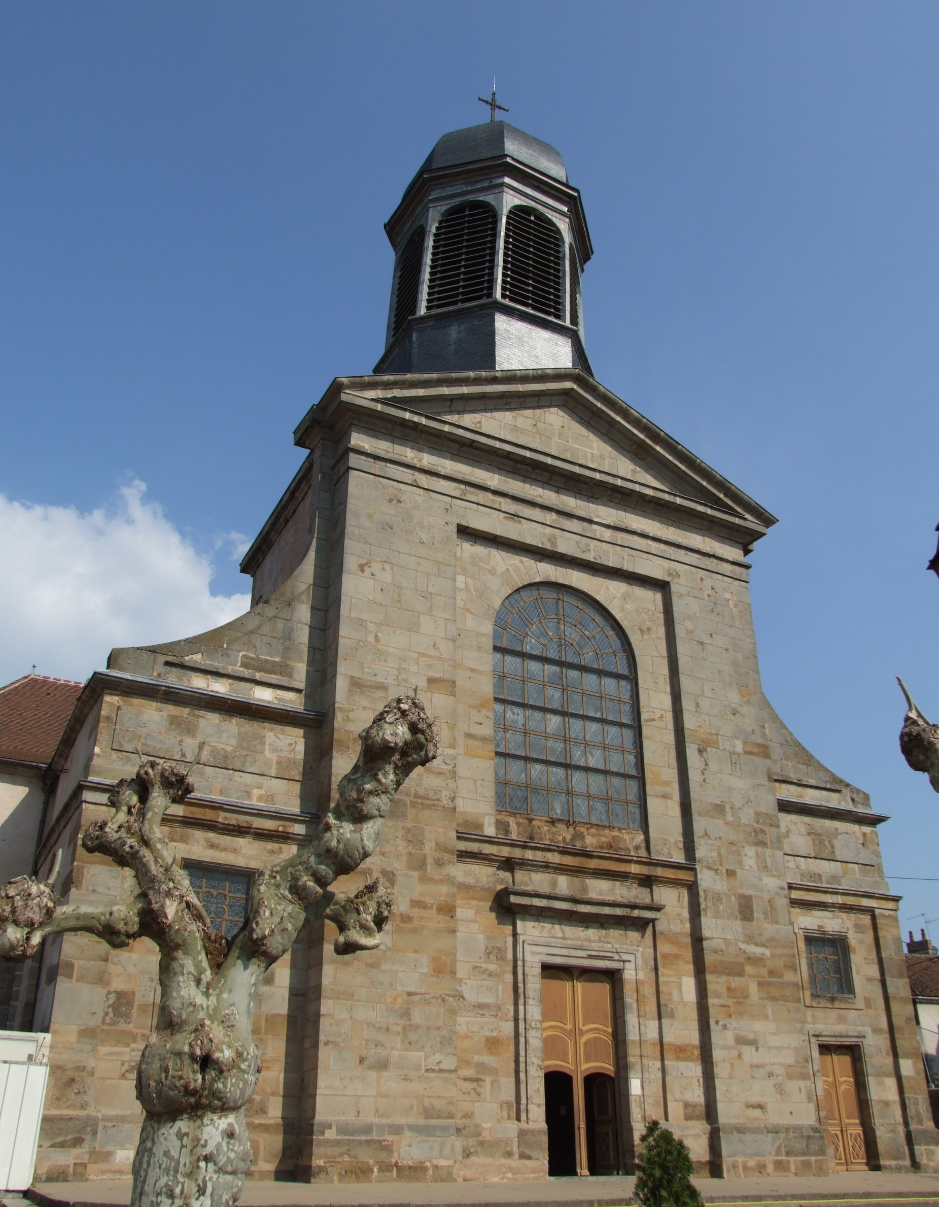 Saint-Laurent church, Arnay-le-Duc, Burgundy, FRANCE